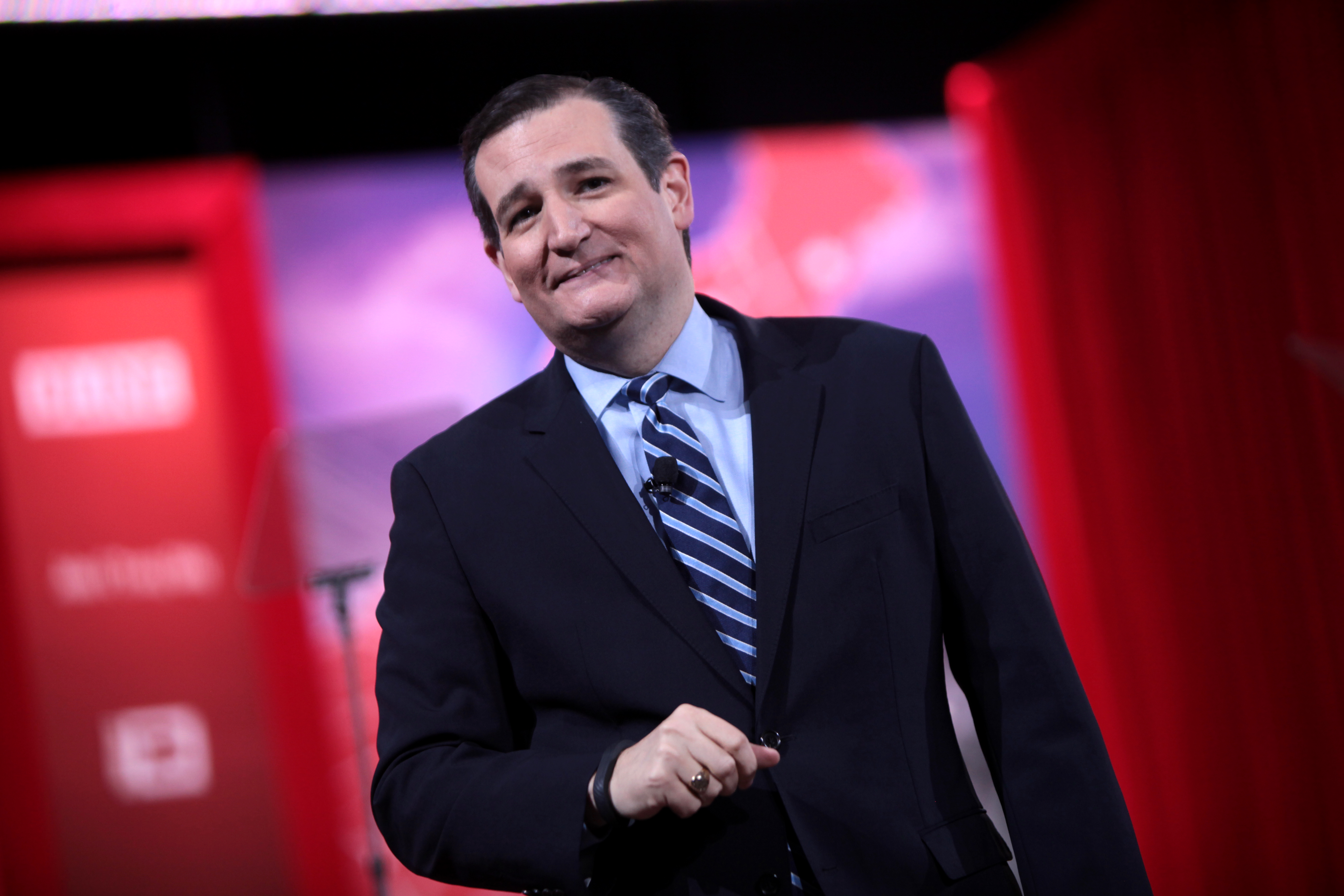 Ted Cruz speaking at CPAC 2015 in Washington, DC.